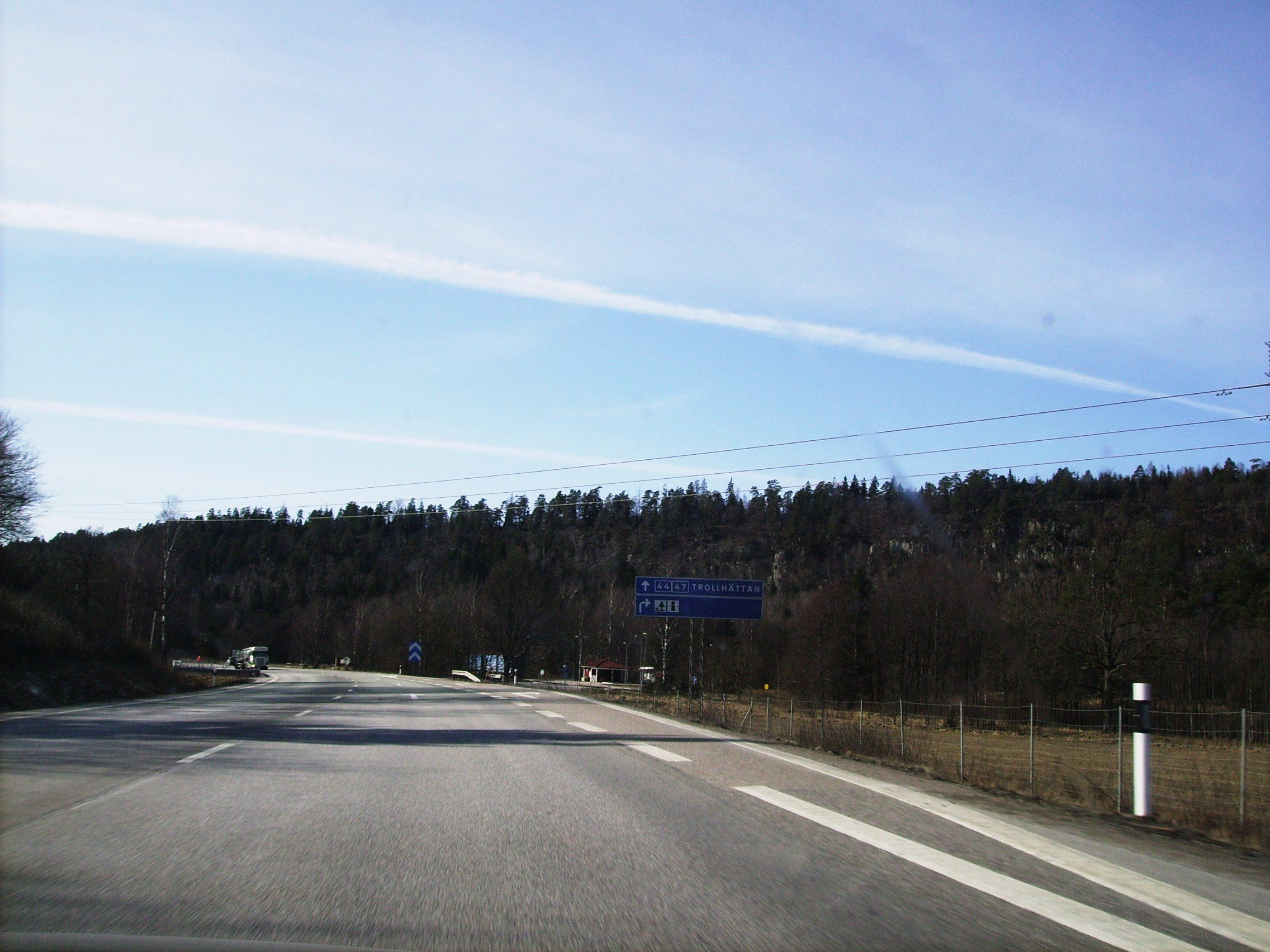 Picture of the table mountain Hunneberg at road 44 near Trollhättan. The photo is taken near the farm Högarna in Norra Björke parish, Väne hundred, Trollhättan municipality, Västergötland, Sweden.